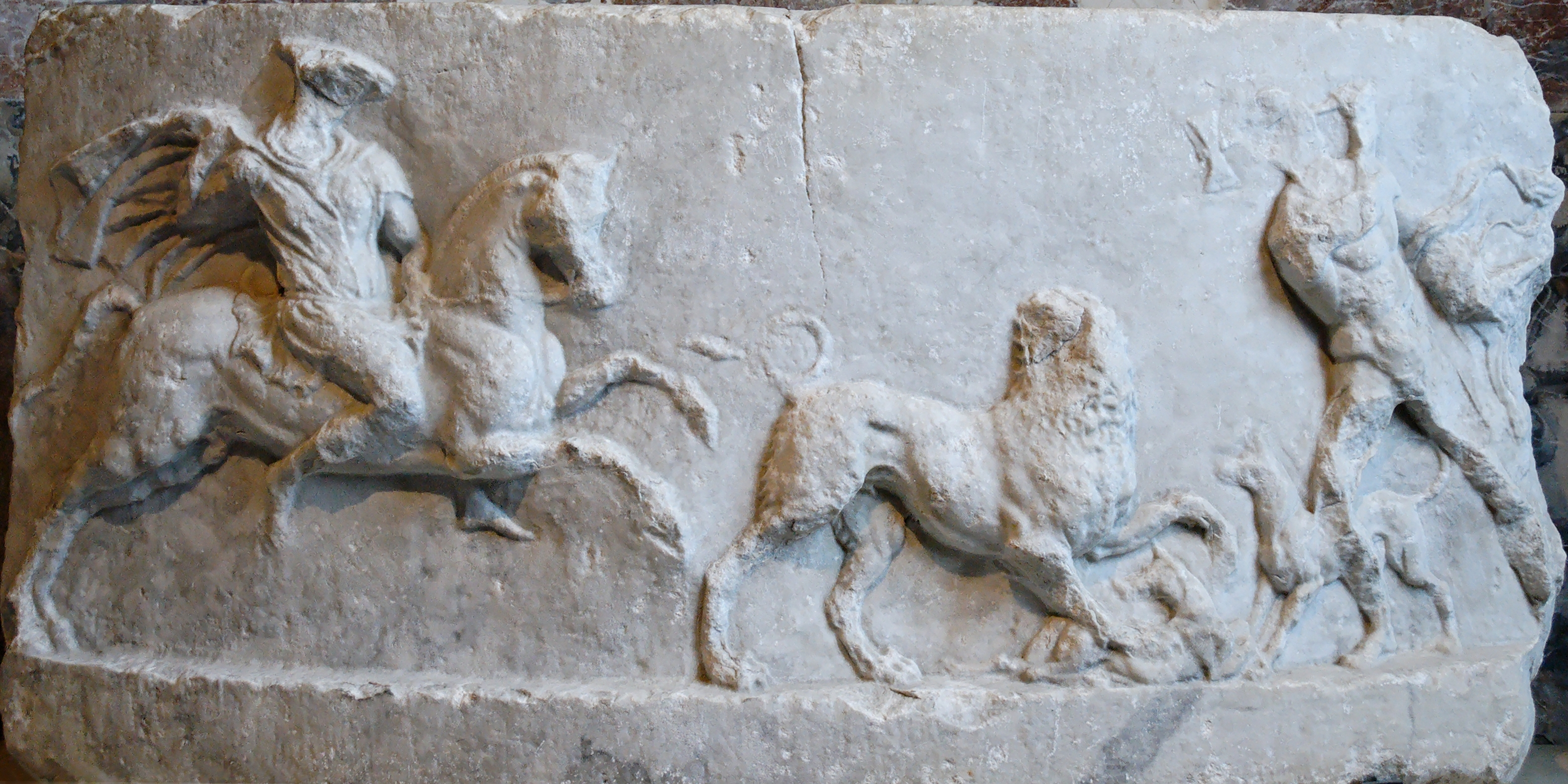 Hunt scene, known as "Alexander's hunt". Grey-blue marble, 3rd ou 2nd century BC, circular base (of a statue?) found near Messene, Peloponnese.